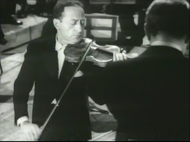 Jascha Heifetz from "Carnegie Hall".